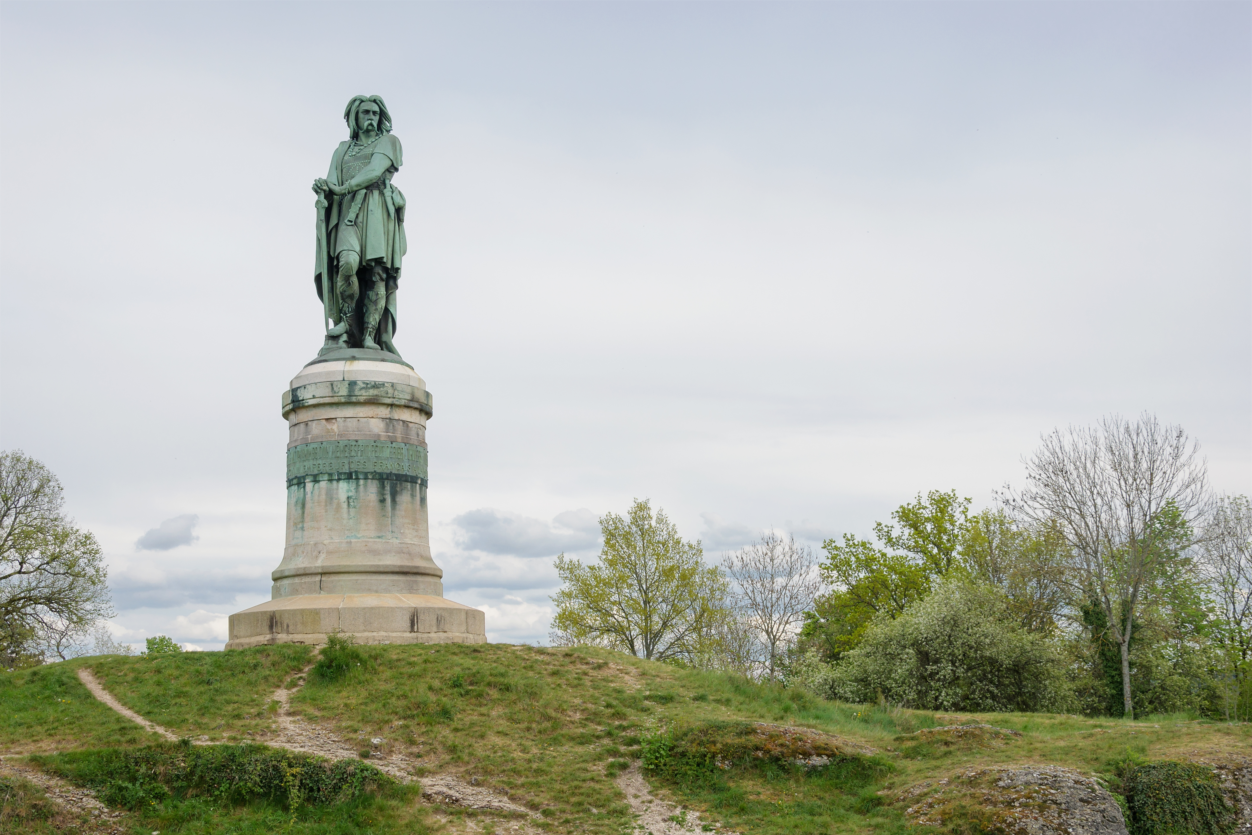 Vercingetorix, monumental statue by Aimé Millet in Alise-Sainte-Reine, Côte-d'Or department, Burgundy, France. .